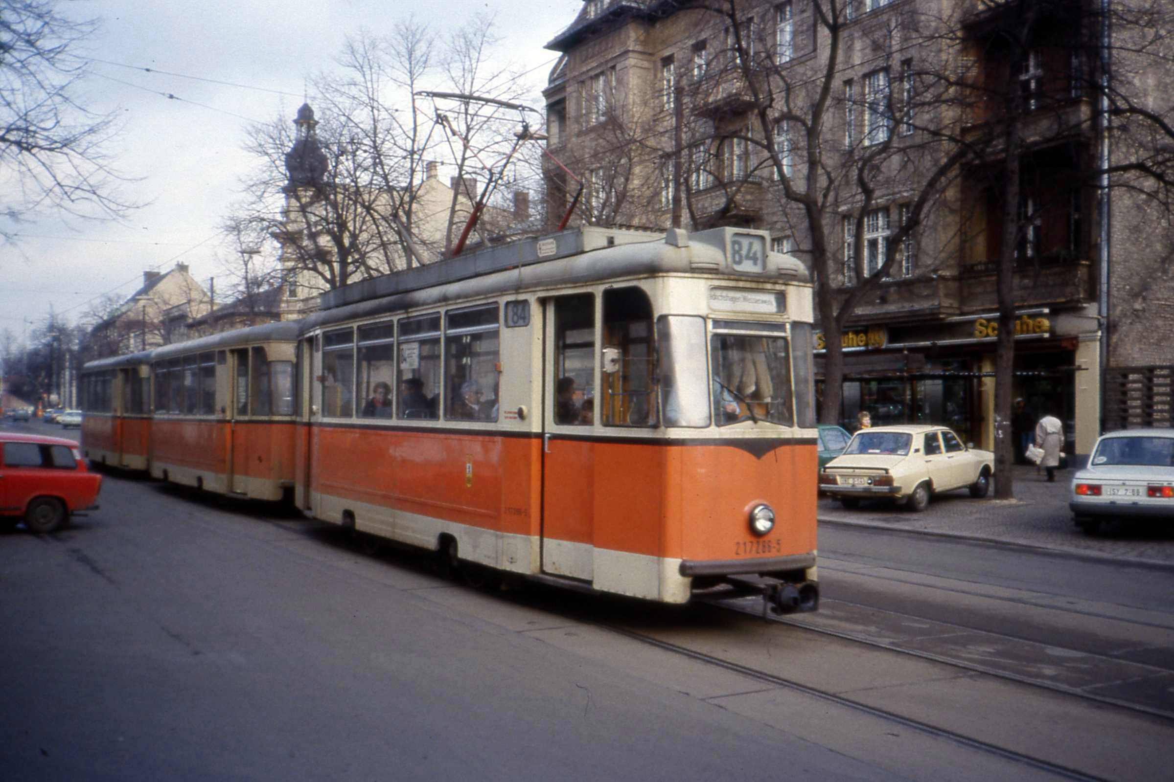 217 286-5 in Friedrichshagen. Linie 84 , en route for the Wasserwerk. Koepenick depot was a stronghold of the early Gotha and REKO trams. The 84 had started off at Am Falkenberg in Altglienicke. Dacia, Wartburg and Trabant cars complete the scene.